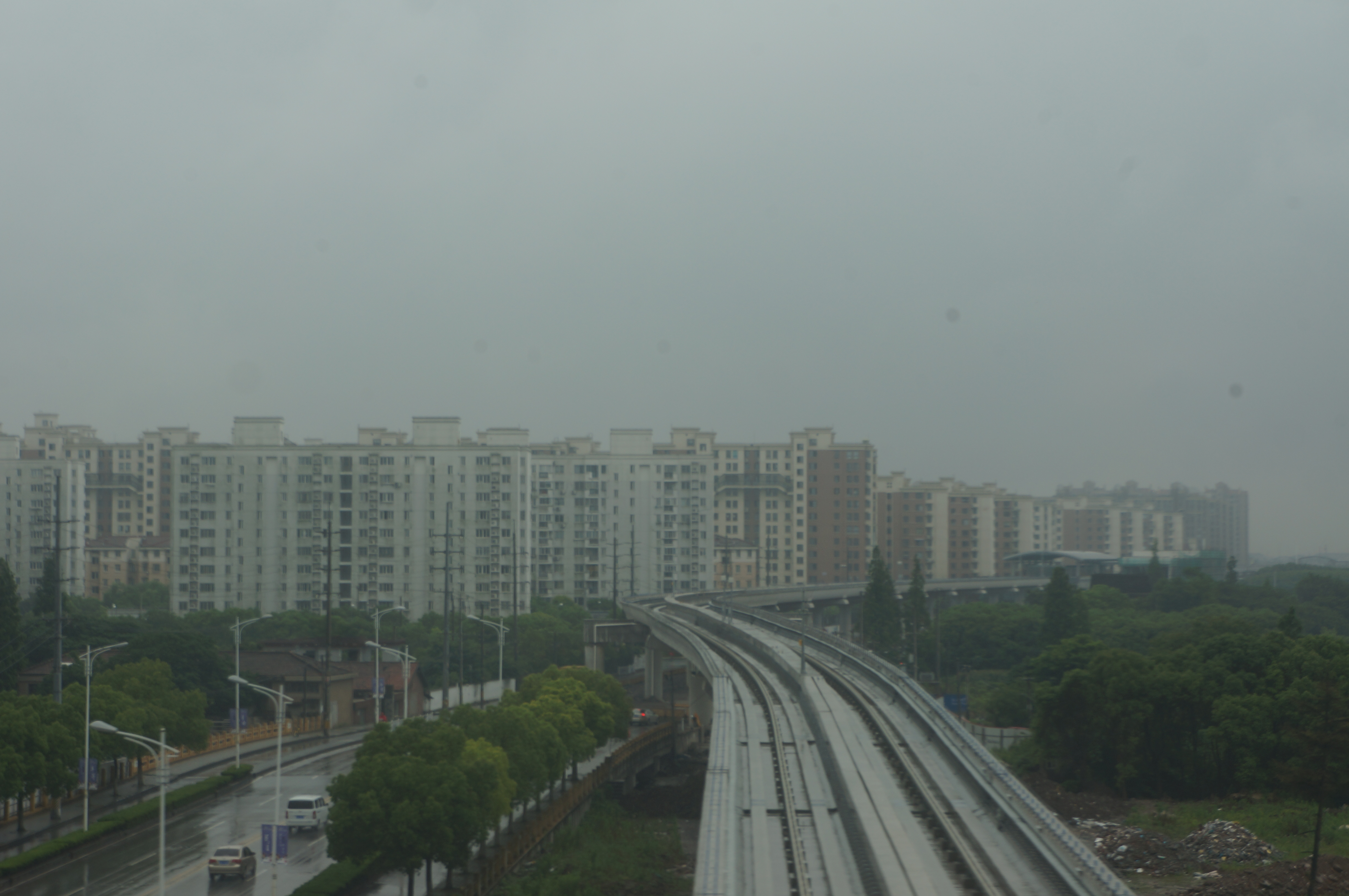 201706 SHM L8 Extension in Minhang